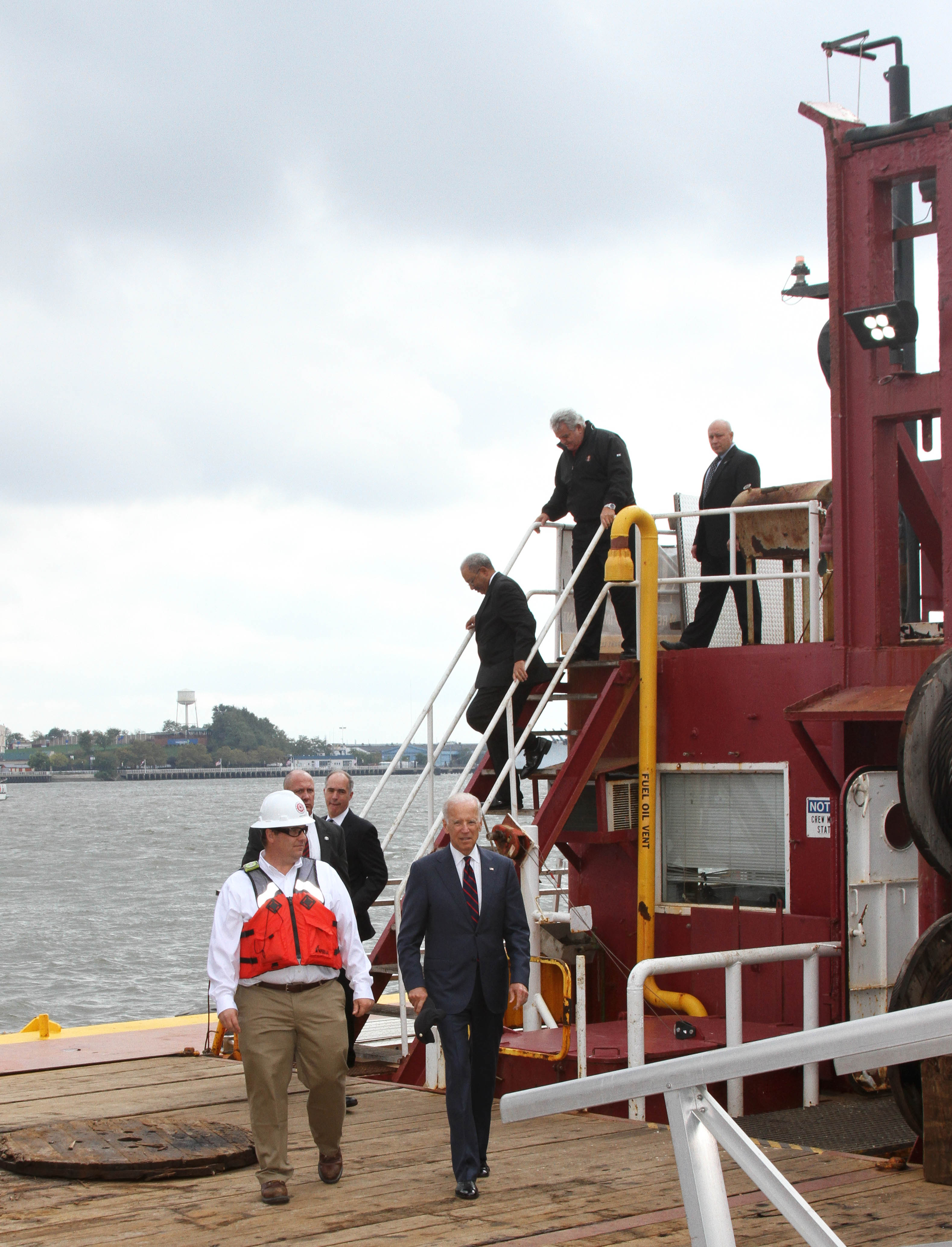 Great Lakes Dredge & Dock Company Project Manager Brian Puckett explains dredging operations to Vice President Joe Biden, Senator Bob Casey, Congressman Bob Brady and Congressman Chaka Fattah during an Oct 16 event. Leaders were briefed on the Delaware River Main Channel Deepening Project and toured the Dredge 54 at Penn's Landing in Philadelphia. (Photo by Tim Boyle)